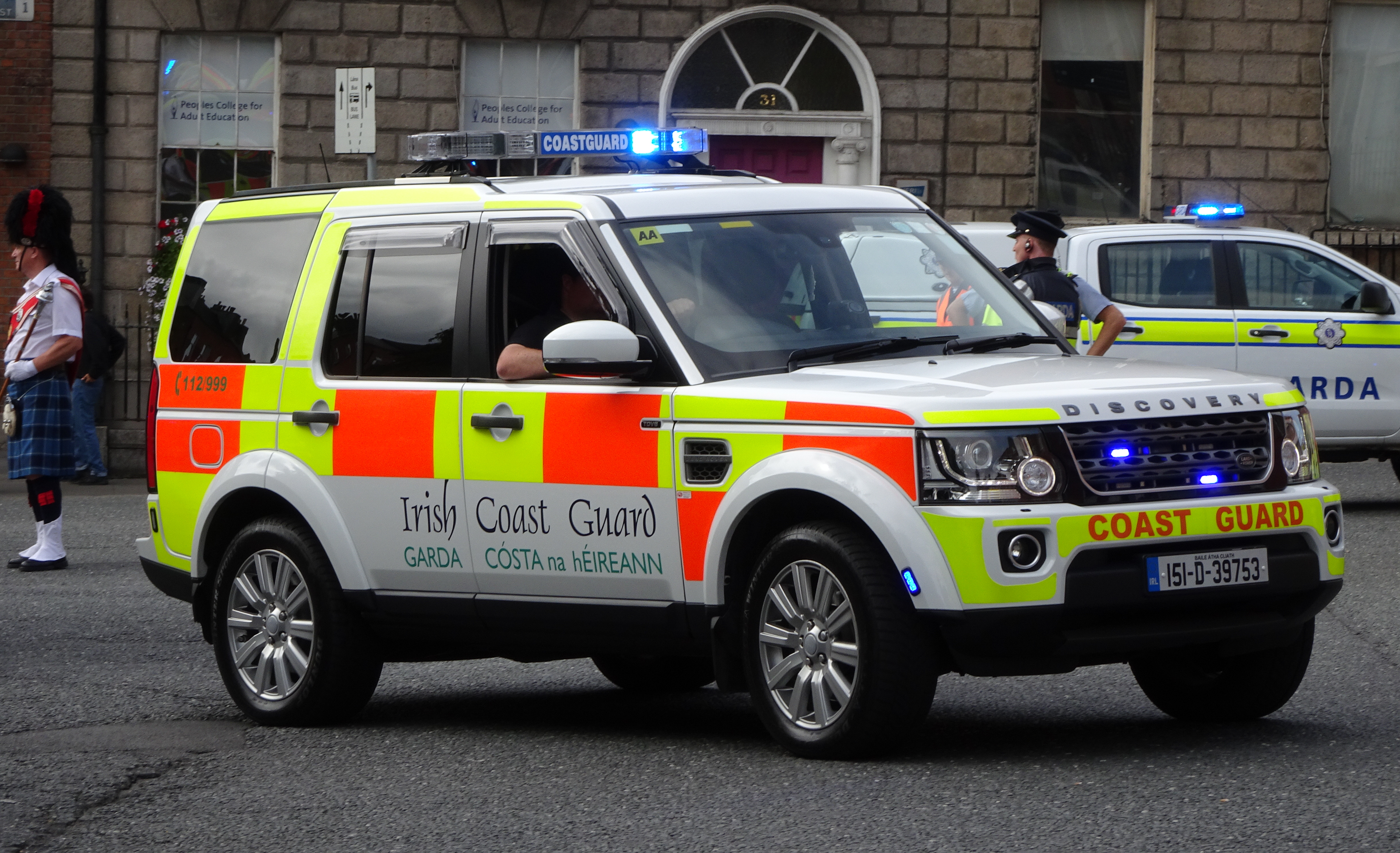 Today there was a day of action in Dublin to honour the country's emergency services but as you can see from my photographs the even included many other services including Customs officers and their sniffer dogs. After photographing the "National Services Day" parade at North Parnell Square I decided to visit the Botanic Gardens but to get there I needed to go to Broadstone in order to get a bus to Glasnevin. While waiting at the bus stop I had a conversation with a nun who told me that there must have been a major disaster because the city centre was full of fire engines and ambulances. As already mentioned I purchased a Sony HX-90V because it has GPS capability and today was my first opportunity to experiment with the camera. Much to my surprise GPS works well but I really dislike the viewfinder and many other aspects of the camera but I can't really complain as I paid less than Euro 300. However, I must admit that I was a bit upset when I discovered that it does not shoot RAW.